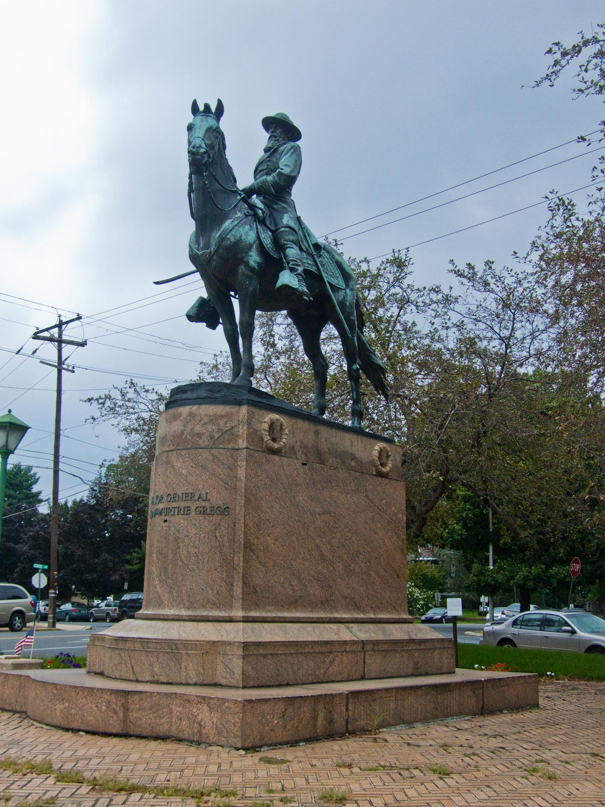 Major General David McMurtrie Gregg (1922), by Augustus Lukeman, 4th Street & Centre Avenue, Reading, Pennsylvania